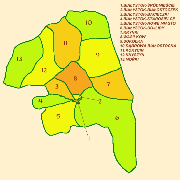 Administrative division of the Białystok archdiocese